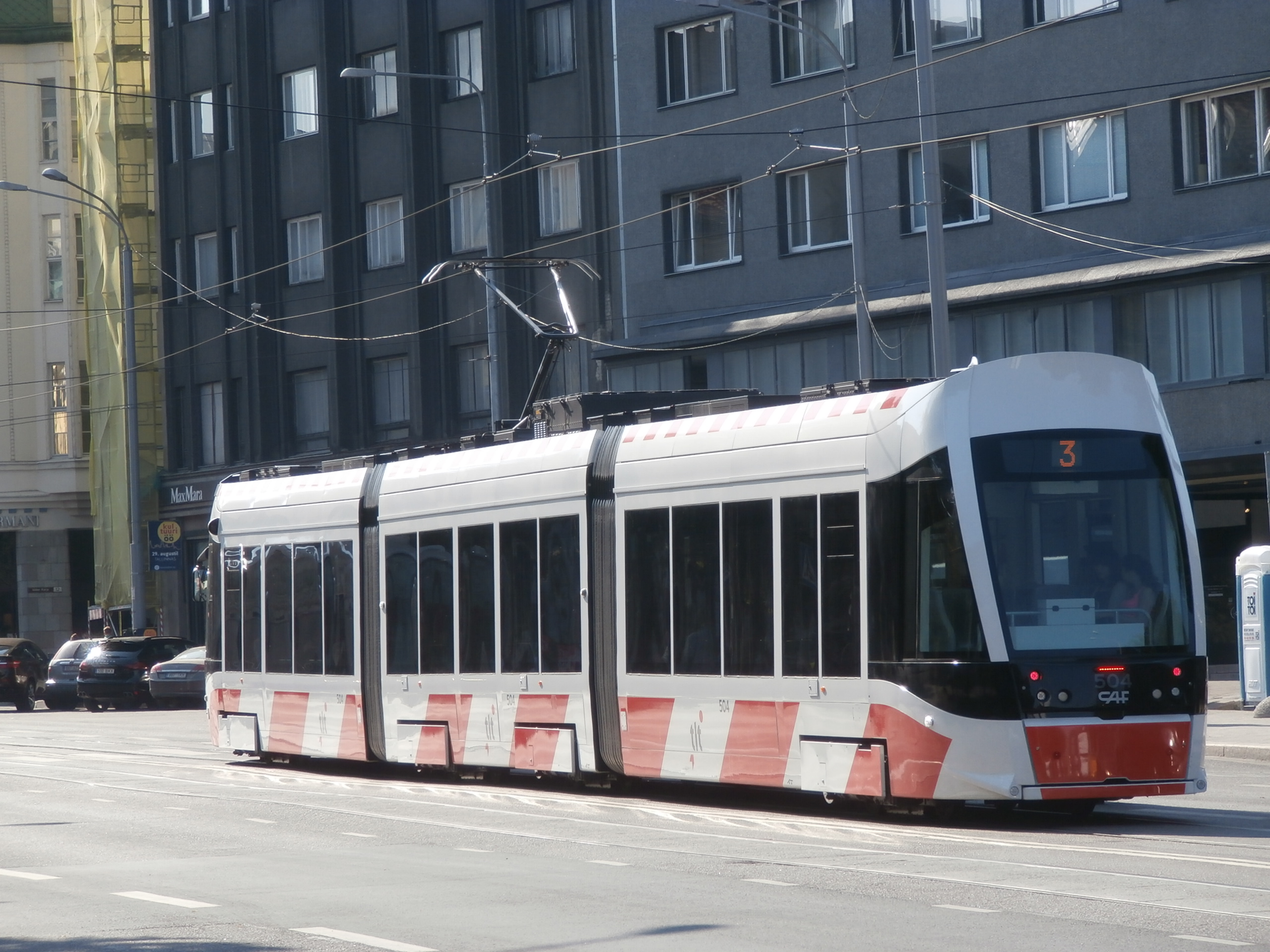 Tram 504 at Viru Stop in Tallinn 25 August 2015